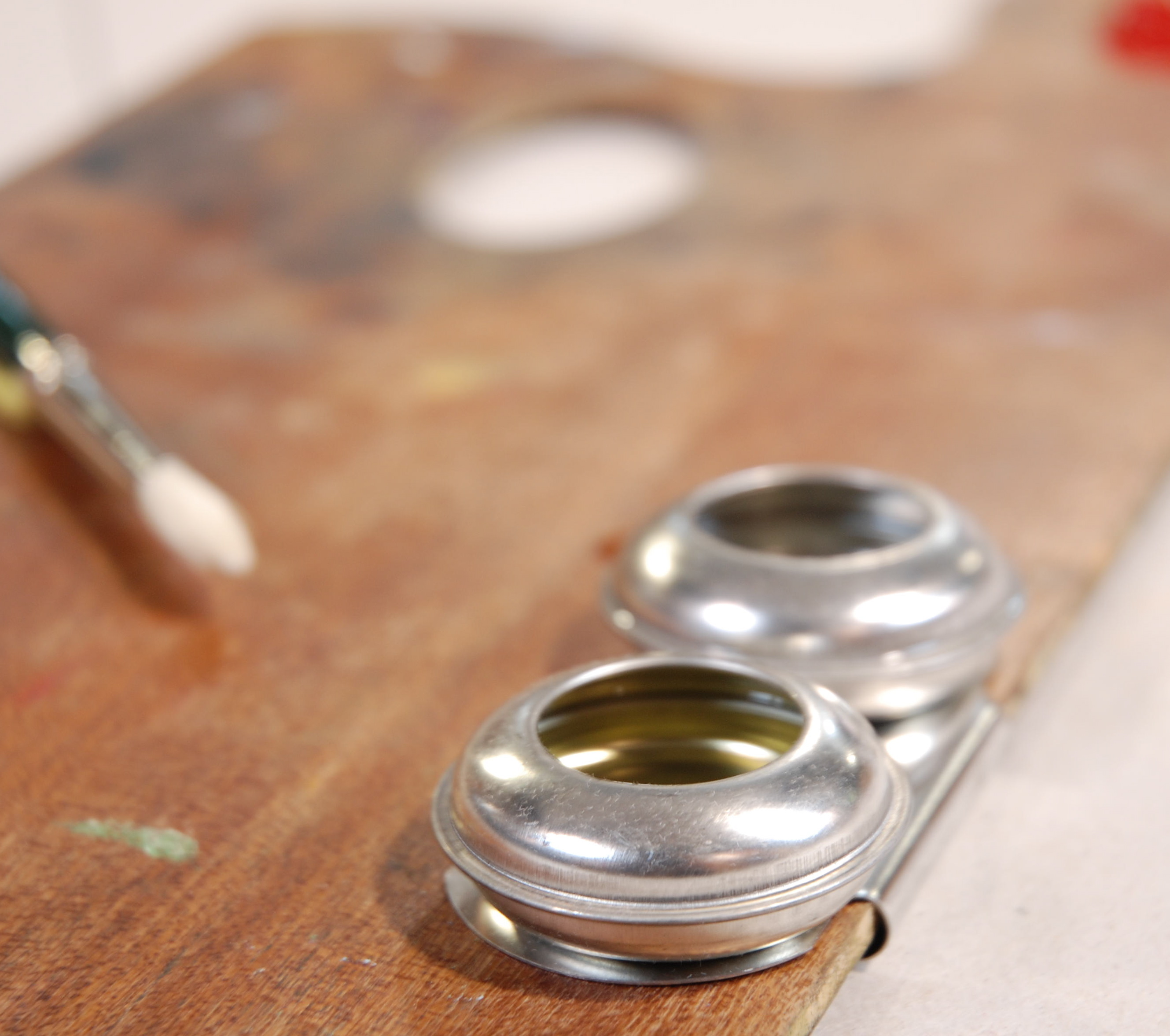 artist dipper